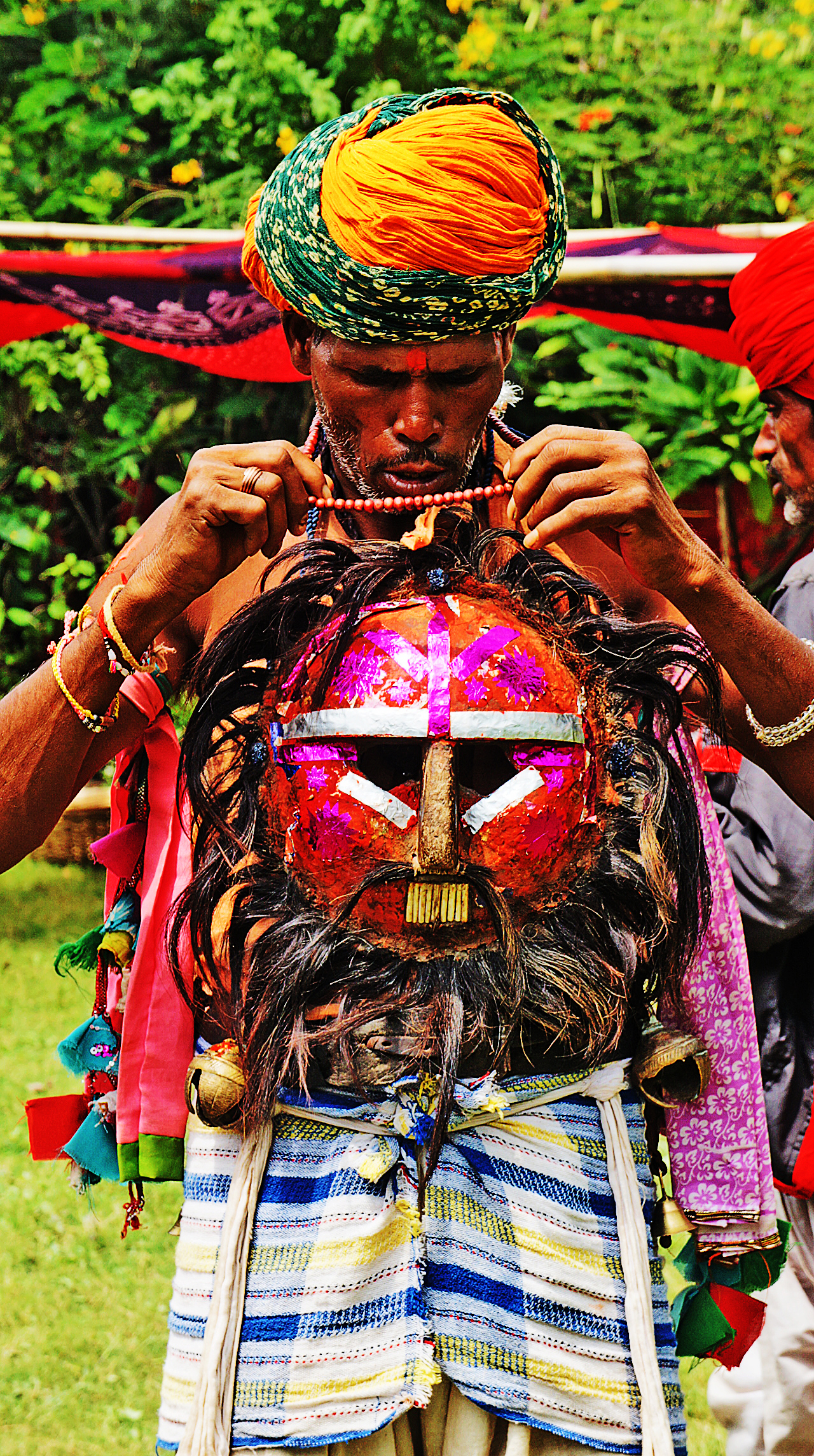 Before each Gavari ceremony, the character players must invite the Goddess and their character's spirit to bless and guide their performance.